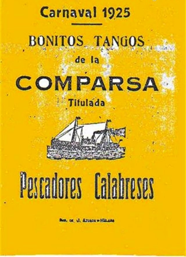 Portada del Libreto de Canciones de una agrupación del Antiguo Carnaval de Málaga